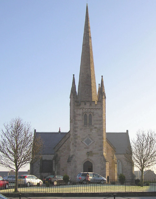 St Lauren's Parish Church, Cookstown. It is on the main road, opposite the junction with the Omagh Road.